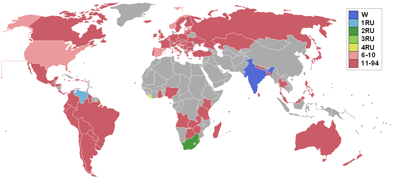 image created by Joey80